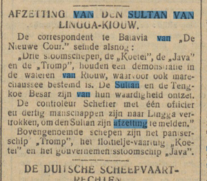 the news on the abdication of the sultan as reported in de tijd. (11 February 1911)